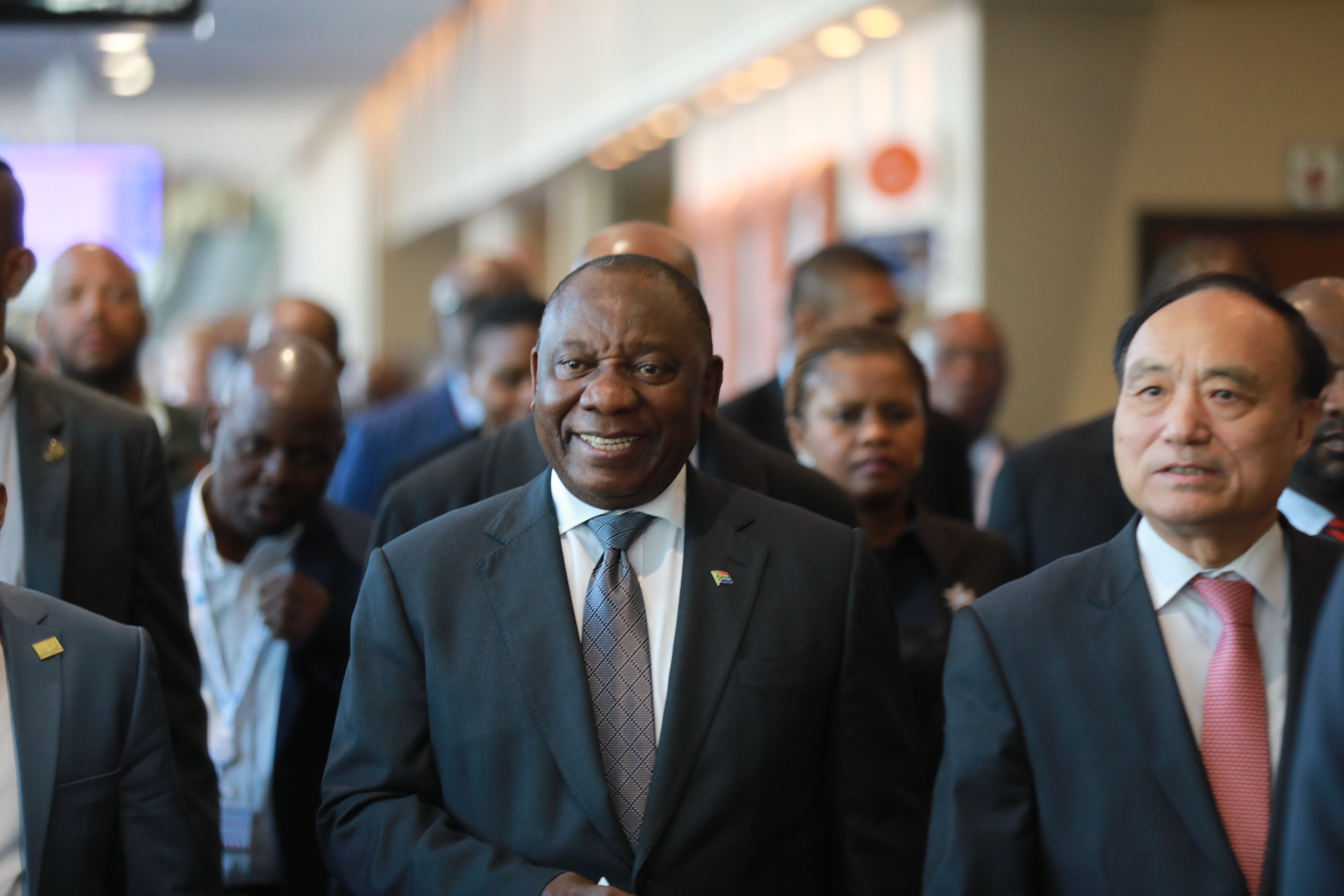 VIP Tour - ITU Telecom World 2018 © ITU/R.Farrell